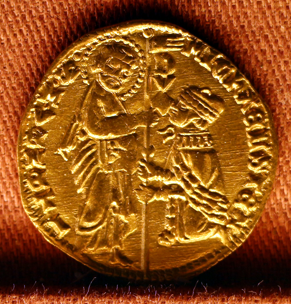 Coins of Venice in the Museo Correr (Venice)